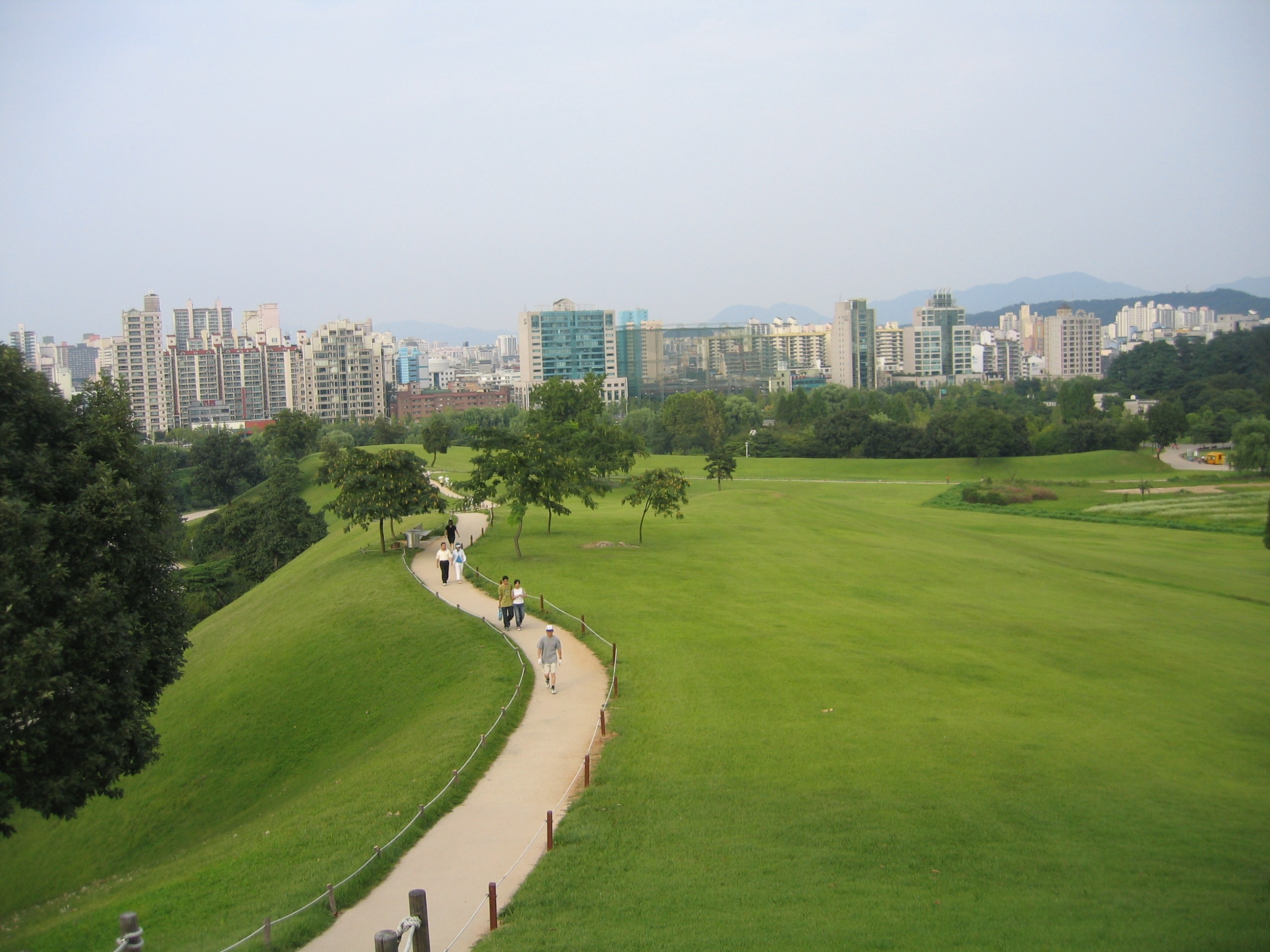 The Mongchong Toseong in Seoul.